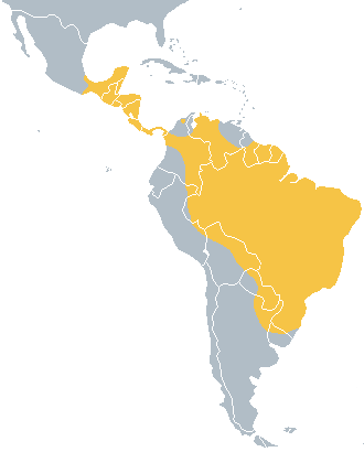 Range map of Lesser Yellow-headed vulture, based on IUCN data; a cropped version